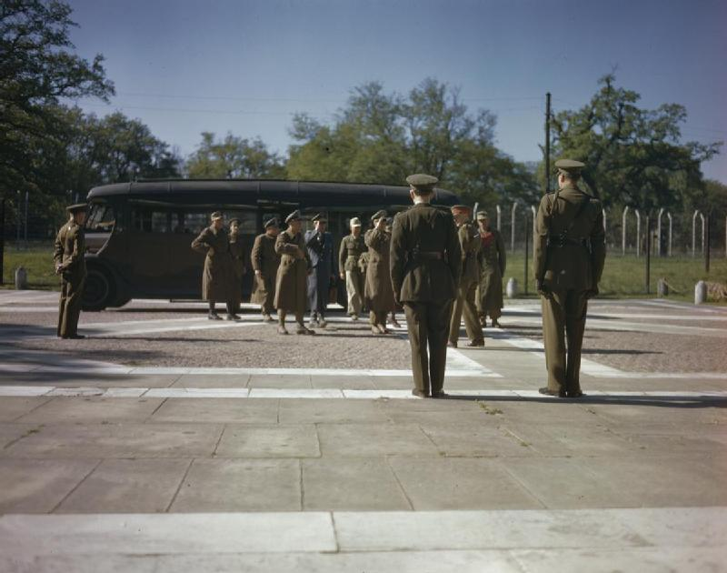 Captured German Senior Officers From the African Campaign Arrive at a Prisoner of War Camp in Britain, 10 June 1943 German senior officers are received by the Camp Commandant Major Topham and representatives of the War Office. The German officers include: General von Vaerst, Lieutenant General Bulowius, Major General Borowietz, Major General Weuffer, Major General Karawse, Major General Bassenge, and Colonel von Quast.